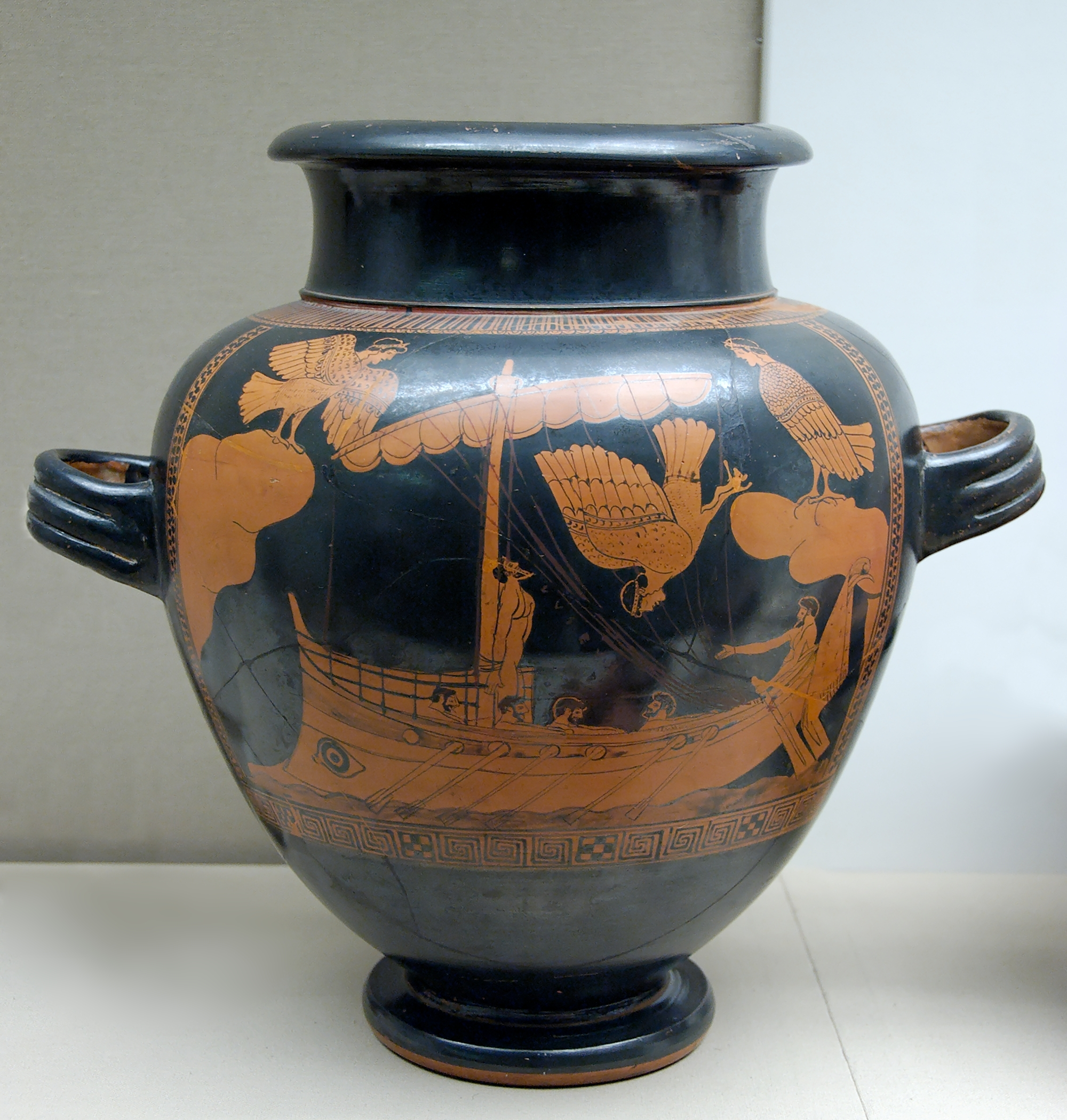 Odysseus and the Sirens. Attic red-figured stamnos, ca. 480-470 BC.